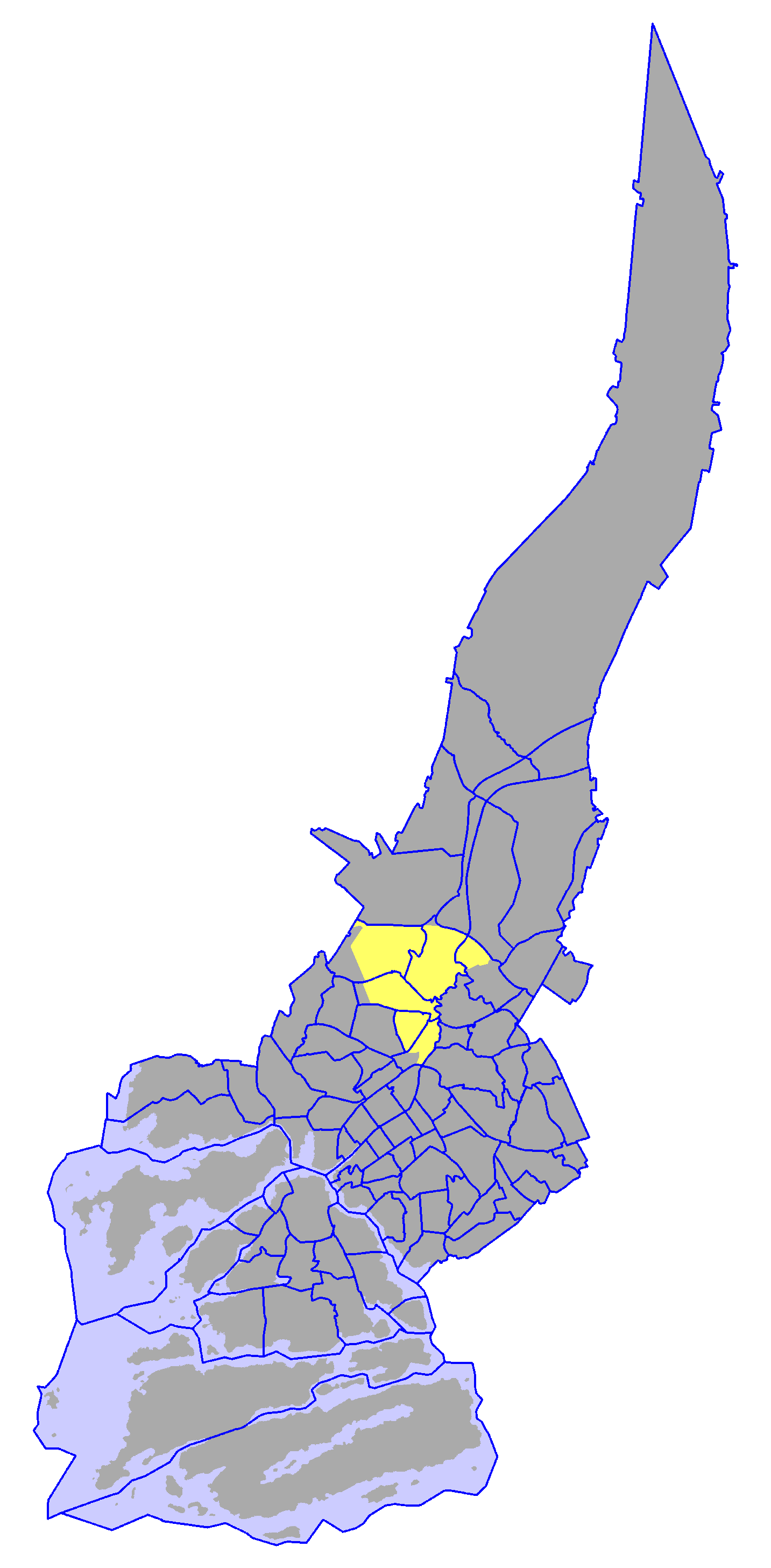 Ward of Tampereentie, in Turku